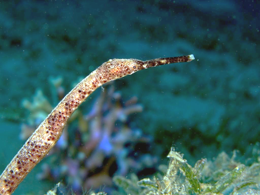 Double-ended Pipefish - Trachyrhamphus bicoarctatus, Egypt-Sinai-Dahab